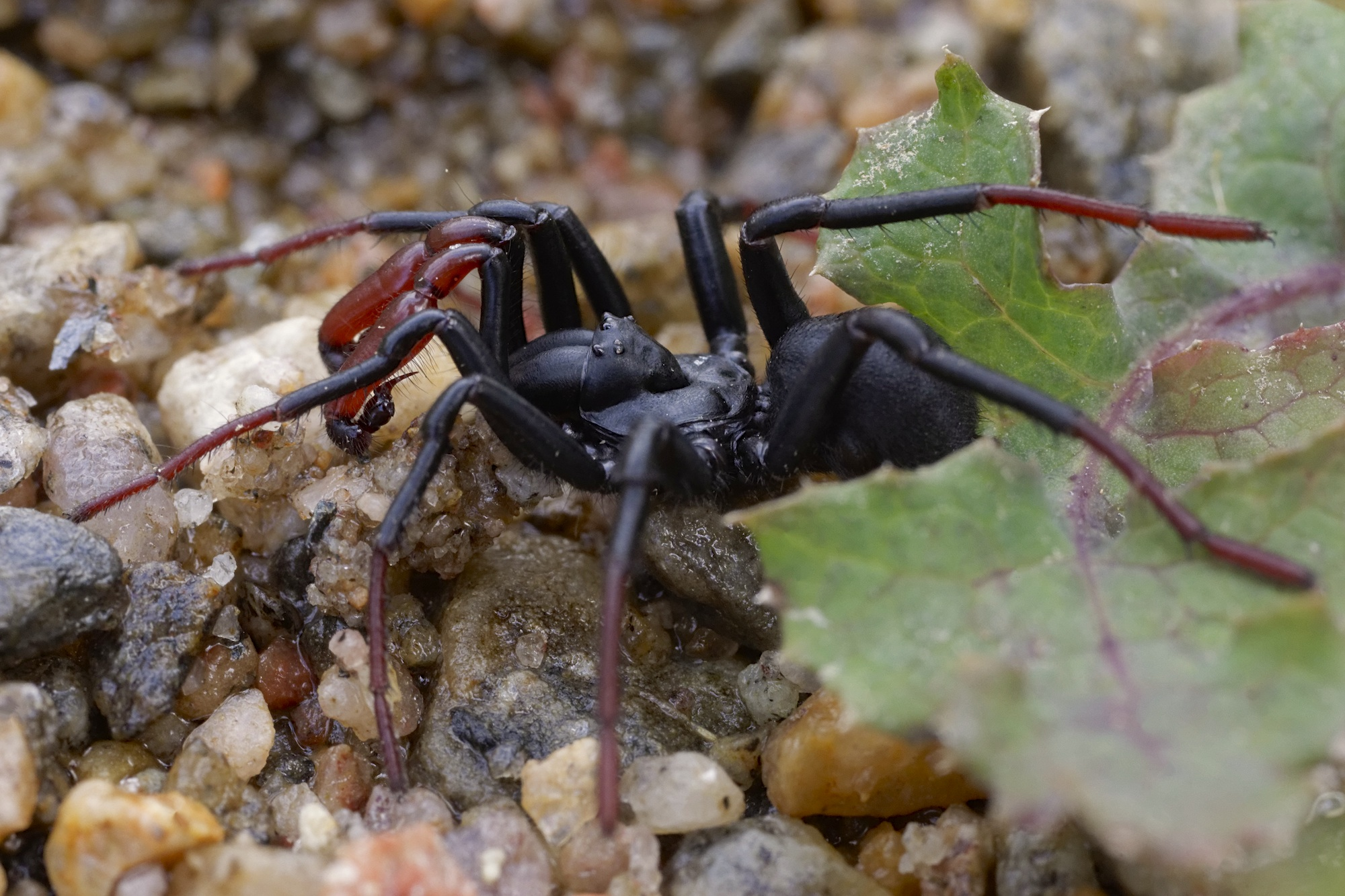 Male Actinopus sp. strolling along the upper course of Rio Lujan